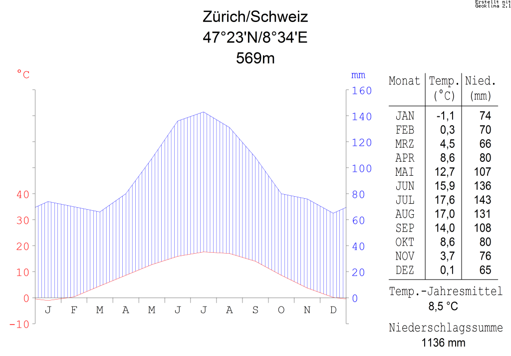 climate chart in the format by Walther and Lieth, metric, °Celsisus and millimeters, made with Geoklima 2.1 DateOctober 2006SourceSoftware: Geoklima 2.1 Website GeoklimaAuthorHedwig in WashingtonPermission(Reusing this file) Own work, attribution required (Multi-license with GFDL and Creative Commons CC-BY 2.5)